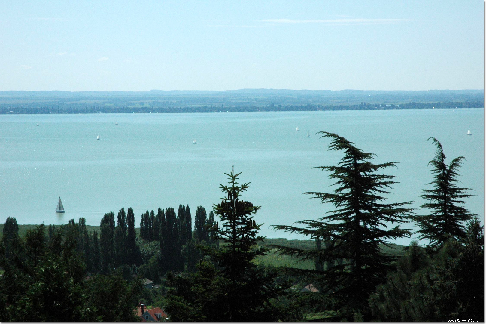 Folly arborétum Balaton panoráma